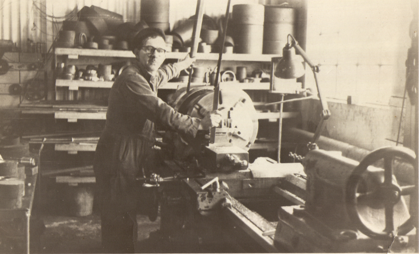 Original author unknown, this .jpeg created by subject's Grandson, Chris Mackinnon. Scottish whaler at lathe in workshop, Leith harbour, South Georgia, mid 40s.